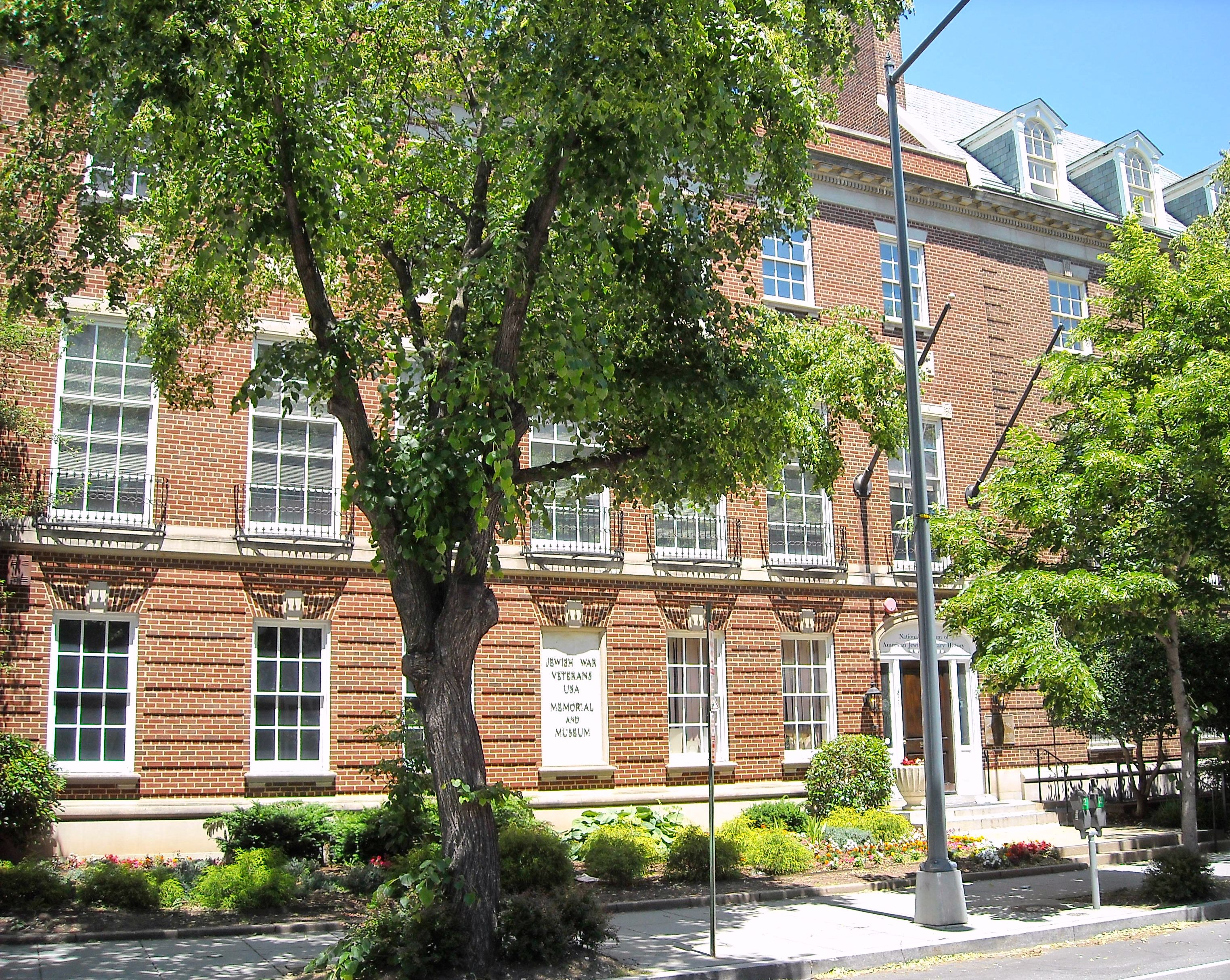 Jewish War Veterans of the United States headquarters and museum